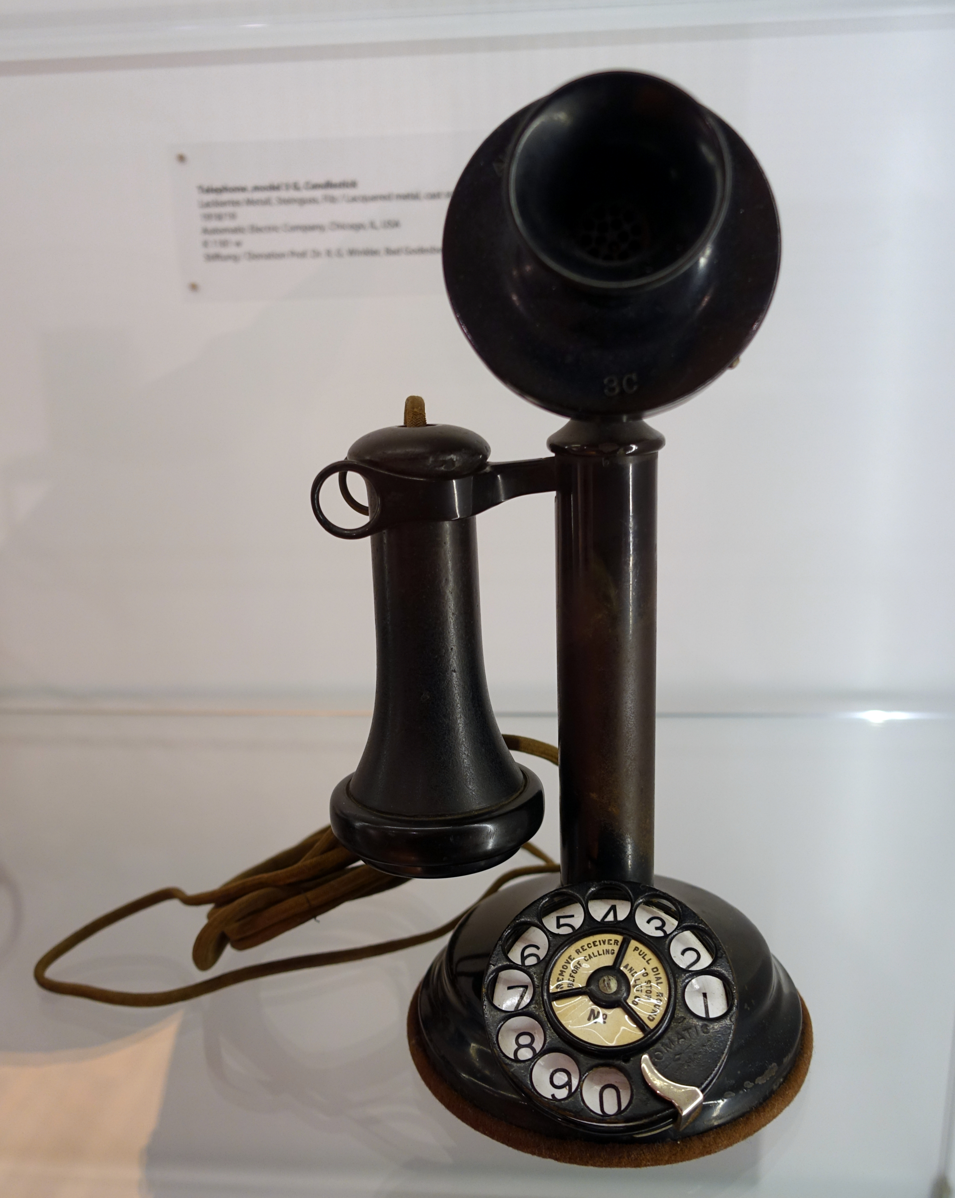 Telephone, Model 3 G, Candlestick, Automatic Electric Company, Chicago, 1918-1919, lacquered metal, cast stone, felt - Museum für Angewandte Kunst Köln - Cologne, Germany. As a utilitarian object, this work is NOT subject to US copyright laws. Instead, it is covered by a U.S. design patent, which covers the ornamental aspects of utilitarian objects, and lasts fifteen years from the date of grant if filed on or after May 13, 2015 (or fourteen years if filed before May 13, 2015). See Industrial design right. Hence this work is now in the public domain.